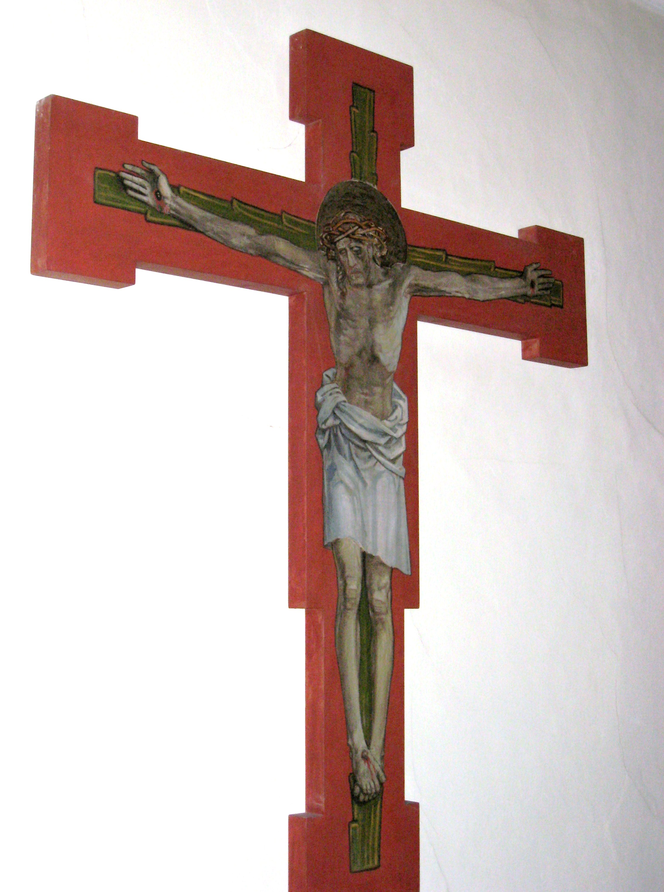 Saint George chapel Arnstadt, Erfurter Strasse 39